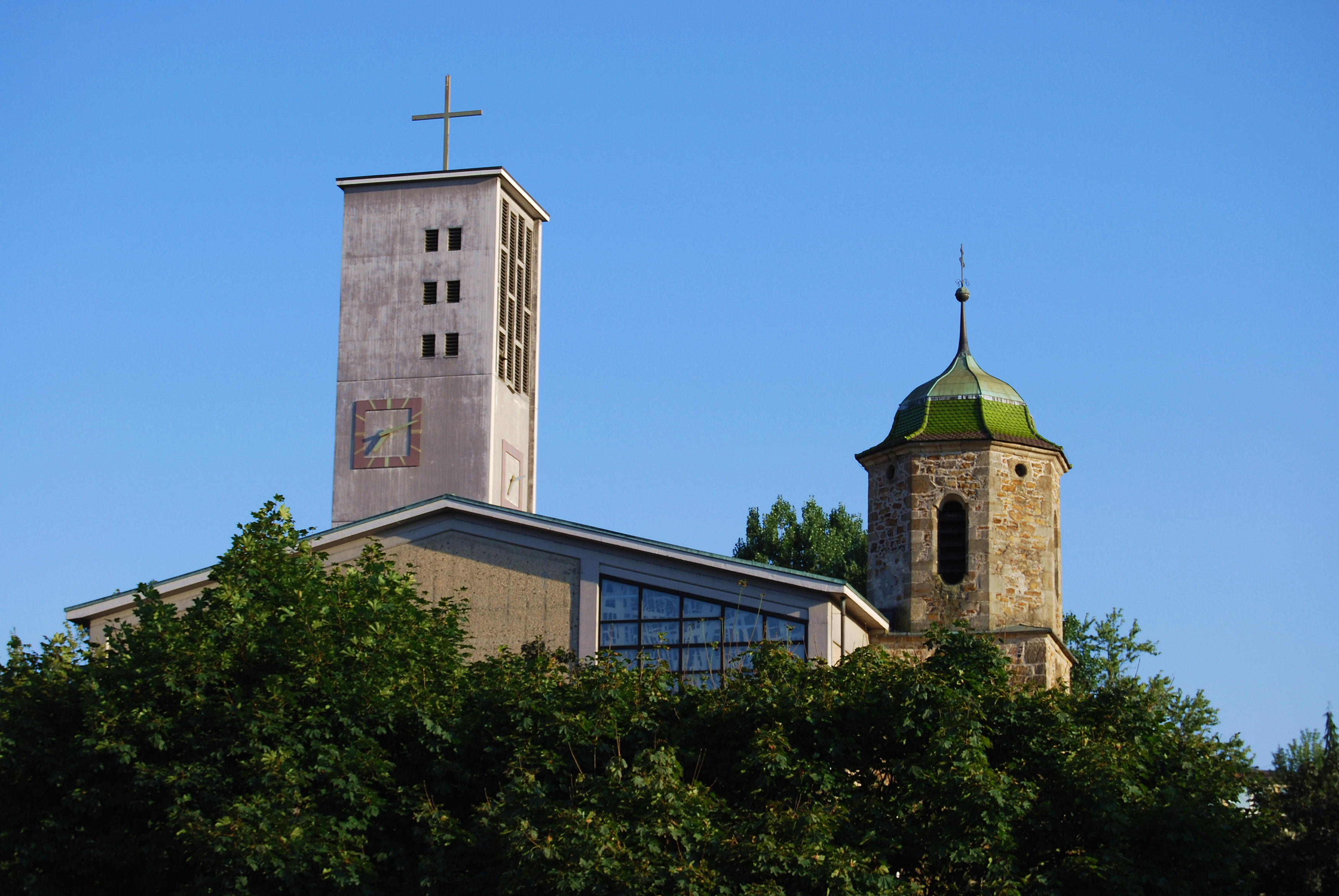 Church in Wernau, Germany.